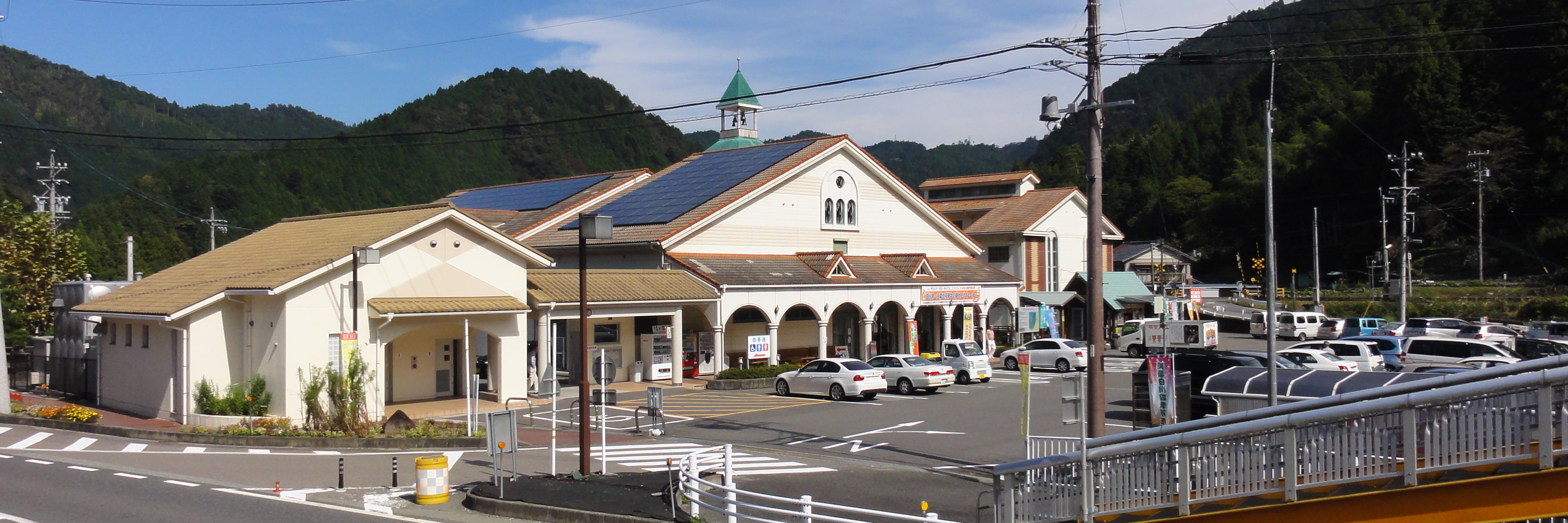 Road to station Mino Shirakawa,Gifu prefecture,Japan